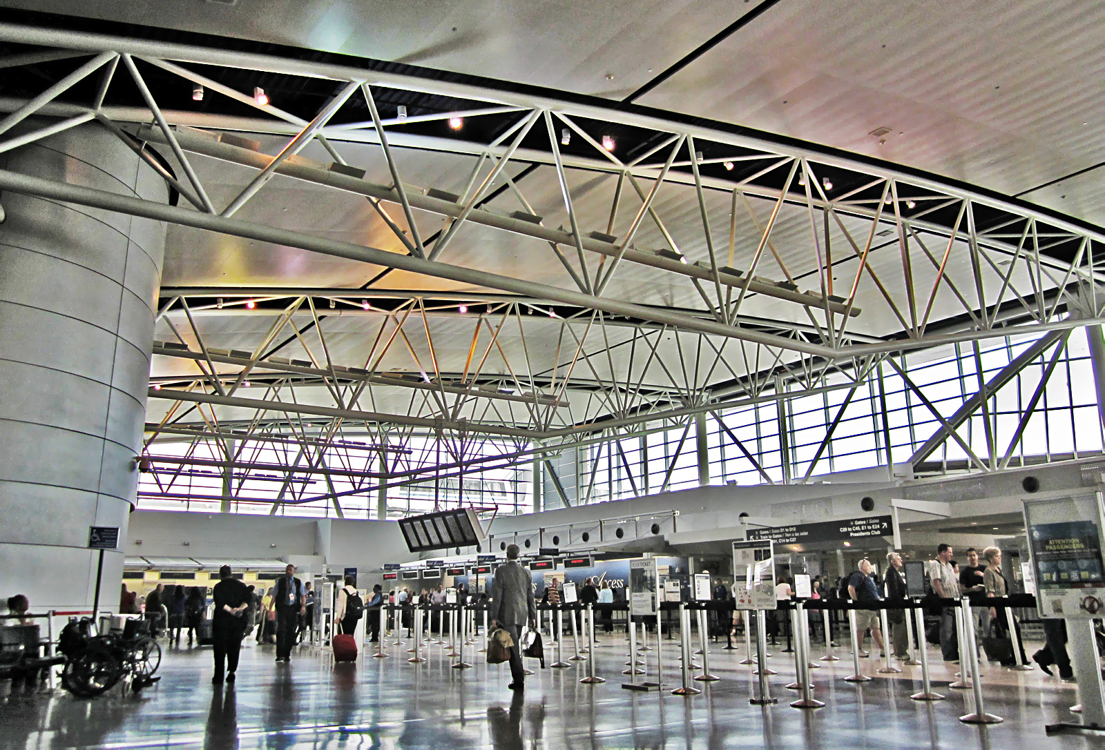 Terminal E at George Bush Intercontinental Airport in Houston.